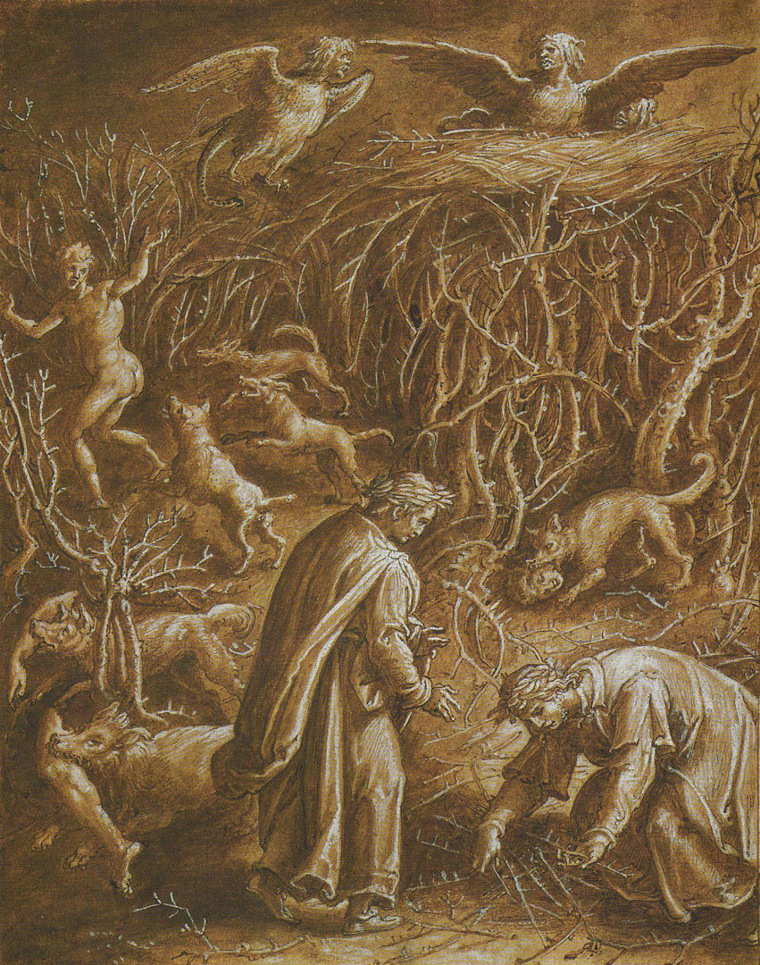 Illustration of Dante's Inferno, Canto 13